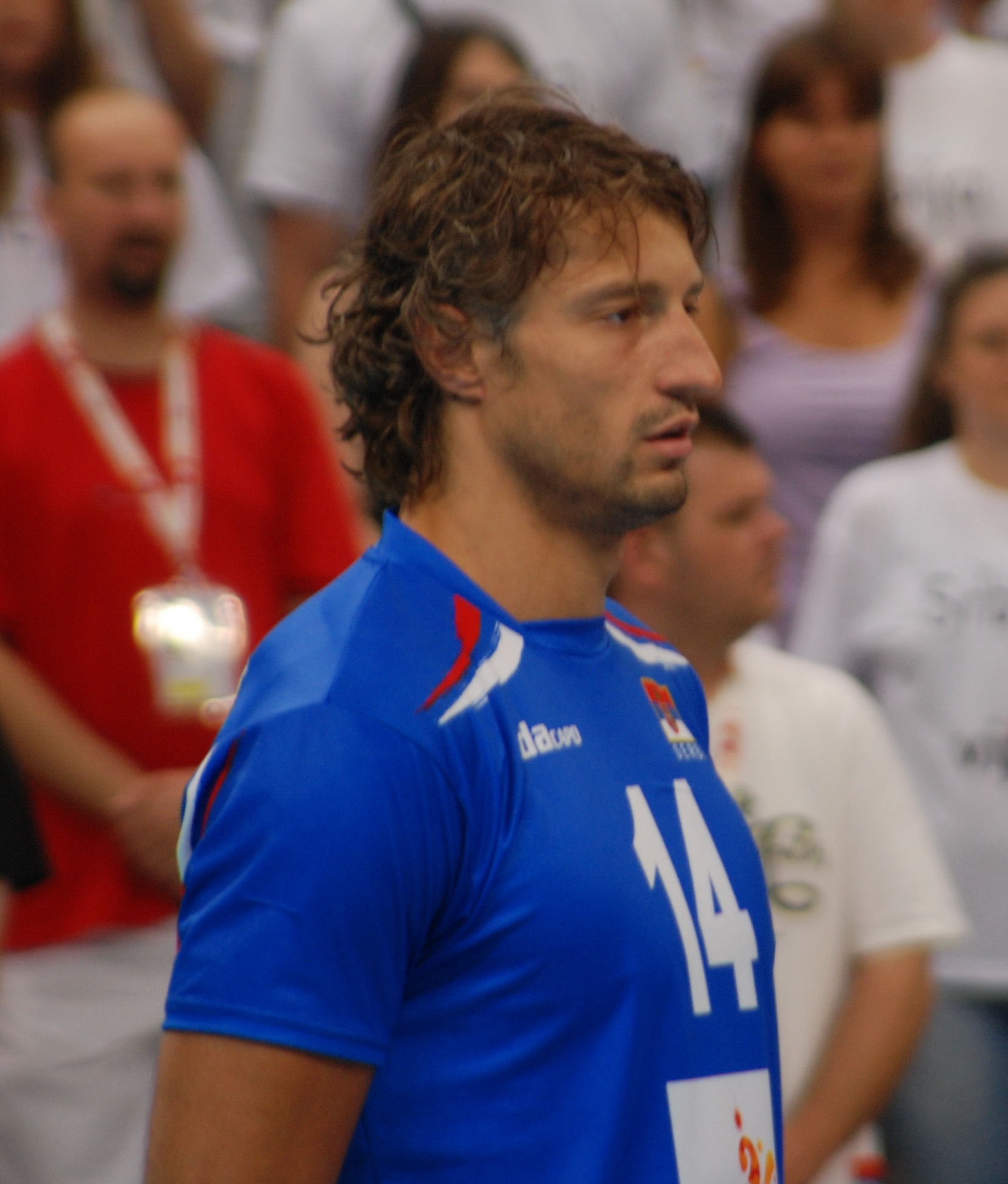 Ivan Miljković is a Serbian volleyball player.